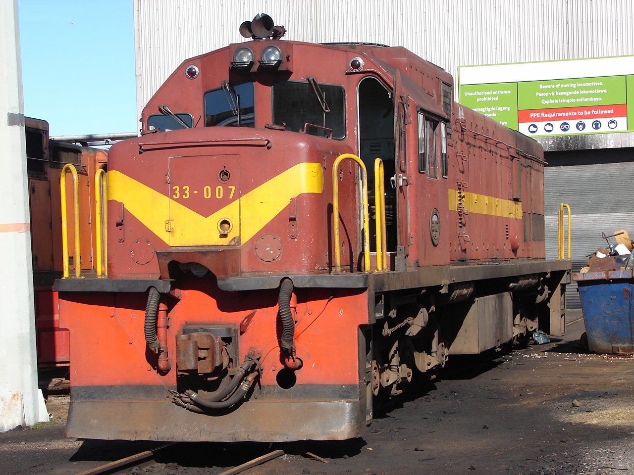 South African Class 33-000 33-007 Builder's Number: GE 35463 Type: GE U20C Location: Bellville, Cape Town